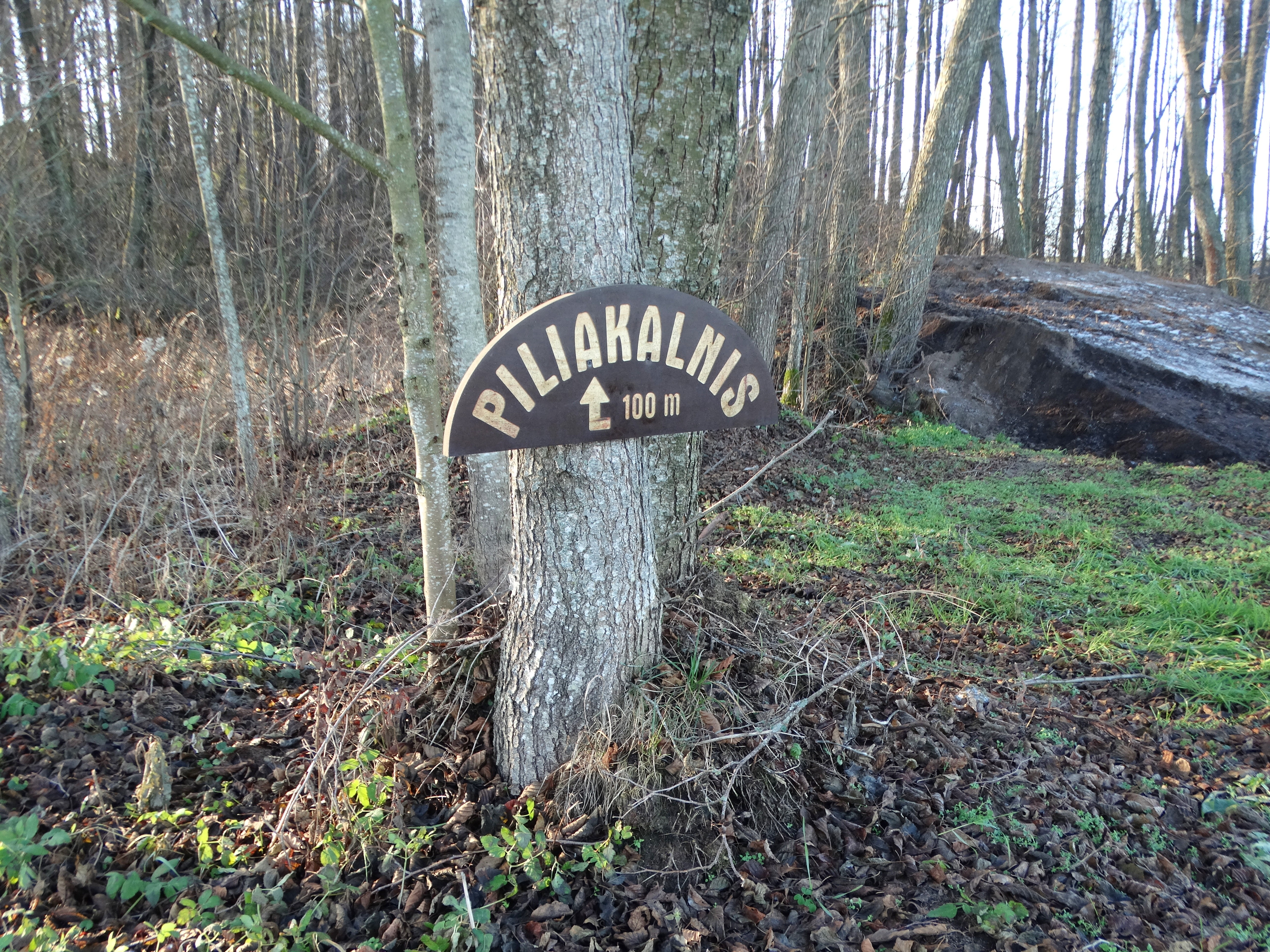 Hillfort in Prienlaukys, Prienai district, Lithuania